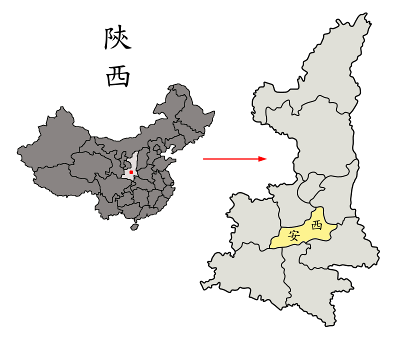 Location of Xi'an Prefecture (yellow) within Shaanxi Province of China Map drawn in december 2007 using various sources, mainly : * Shaanxi Province administrative regions GIS data: 1:1M, County level, 1990 * Shaanxi Counties map from